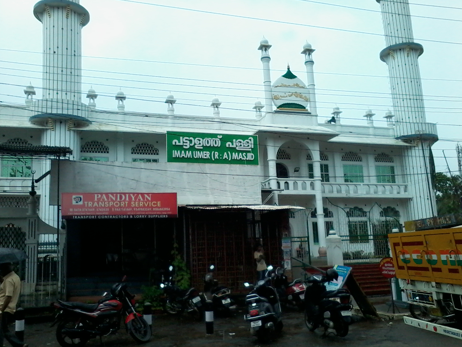 Pattalathu Pally Muslim Jama Ath or Pattalathu Pally is a mosque in Kollam, Kerala, India.